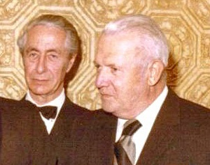 Jaroslav Nemec (in front), the founder of the Czechoslovak Society of Arts and Sciences. With Frantisek Schwarzenberg (in the back), Society's former president. At the Society's 9th World Congress in Cleveland, October 1978.